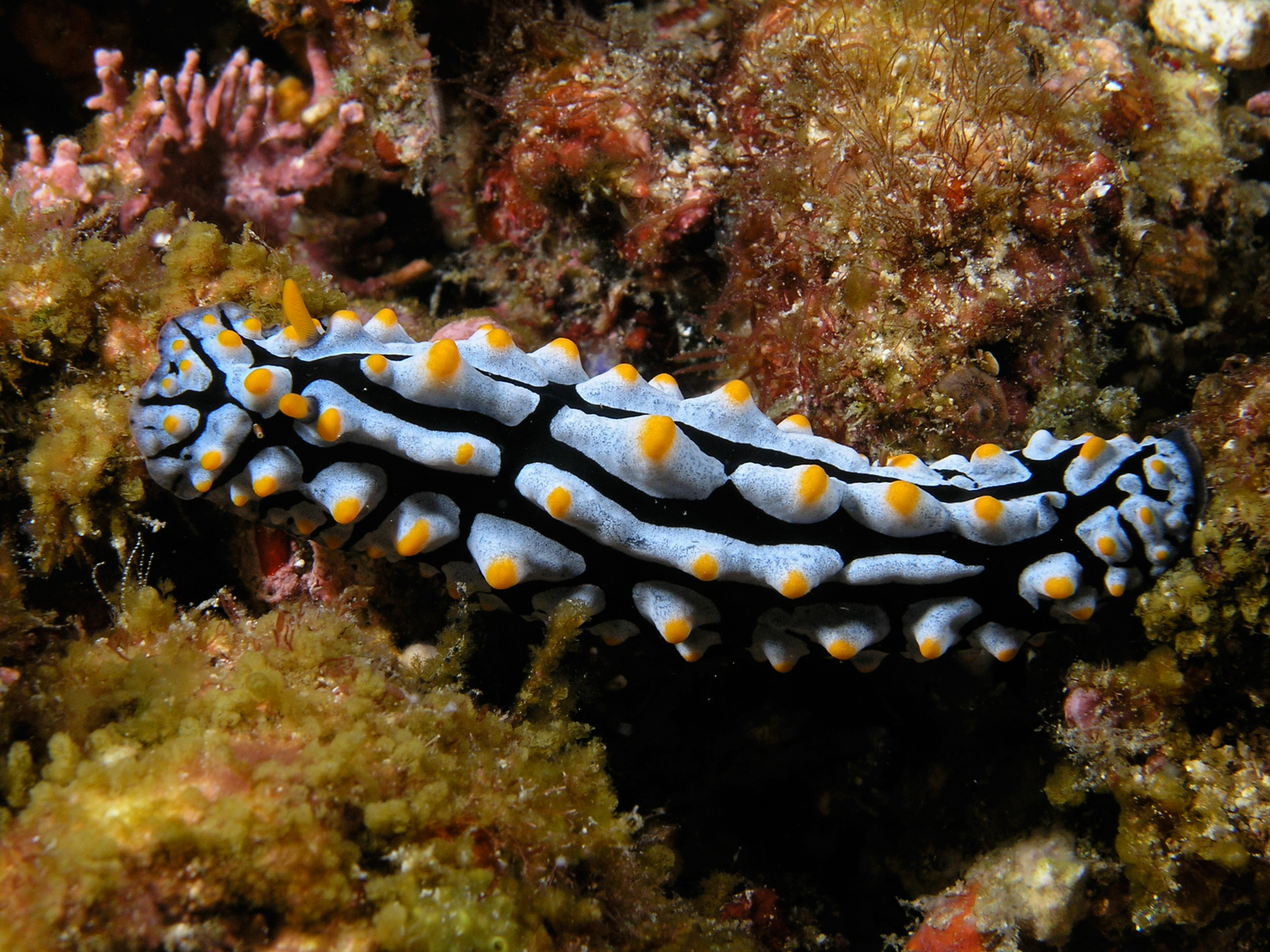 Phyllidia varicosa nudibranch in Komodo National Park.